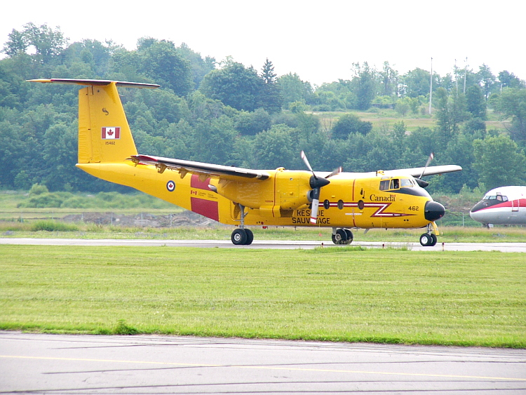 A 442 Transport & Rescue Squadron CC-115 Buffalo, taken at Rockcliffe Airport on July 1, 2004.